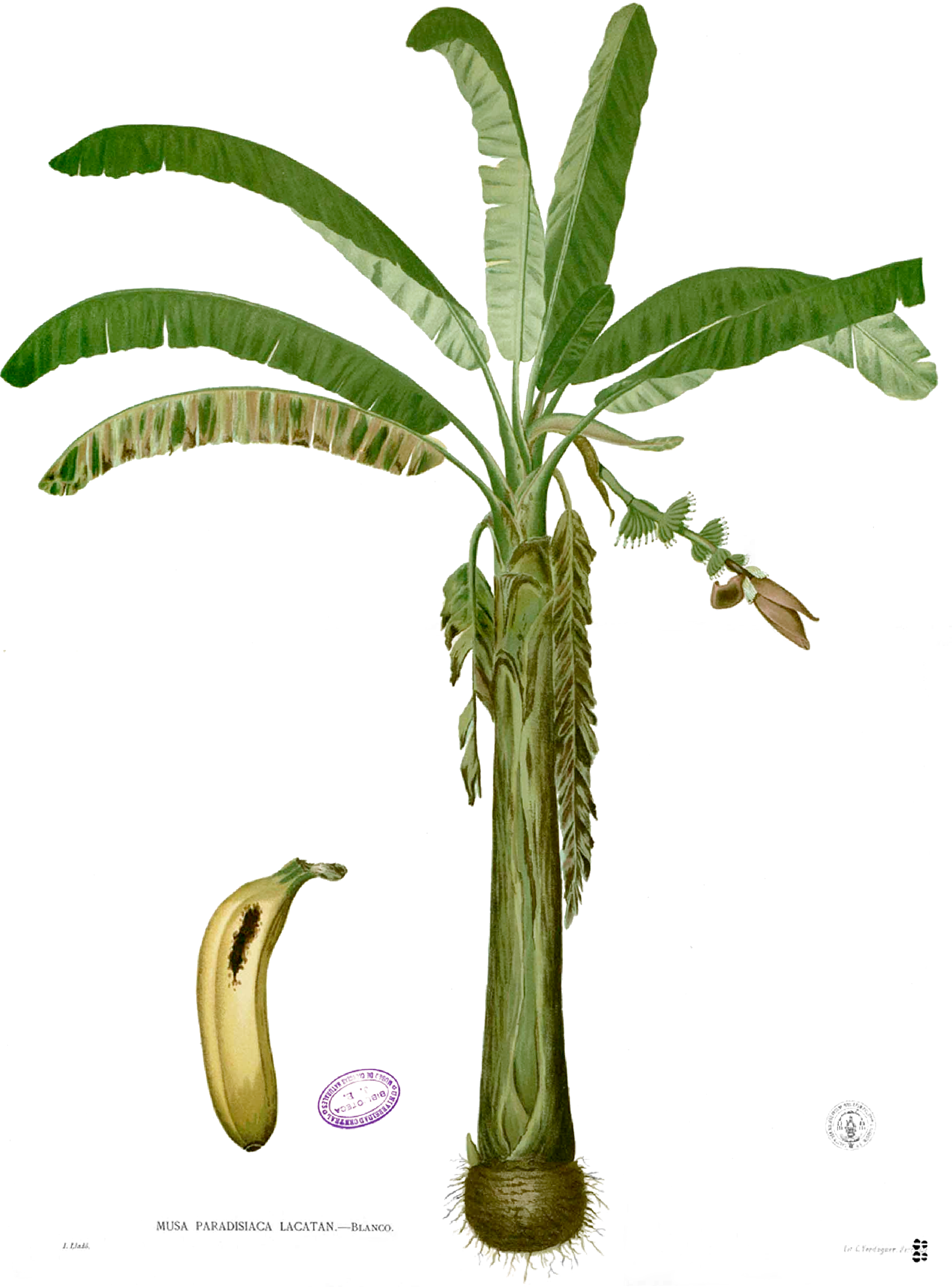 Musa ×paradisiaca Plate from book. Under the modern classification system this banana is actually Musa acuminata Colla (AA Group) cv. 'Lacatan'. Locally known in the Philippines as 'Lakatan'.